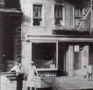 1920 picture of a Piraguero and his cart in New York City Source "Pioneros", Puerto Ricans in New York City 1896-1948; by Felix V. Matos-Rodriguez and Pedro Juan Hernandez; Publisher Arcadia Publishing; ISBN 0-7385-0506-4 Fair use rationale in Piragua The image is not subject to copyright laws, it is pre- 1925. The image is a non-repeatable historic event that is associated with the migration of Puerto Ricans to New York Image is discussed in the article Image cannot be conveyed in another form (either text or another image) since the image itself is discussed in the article The commercial value of the photograph is not significantly reduced by its use on the article The image is low resolution.